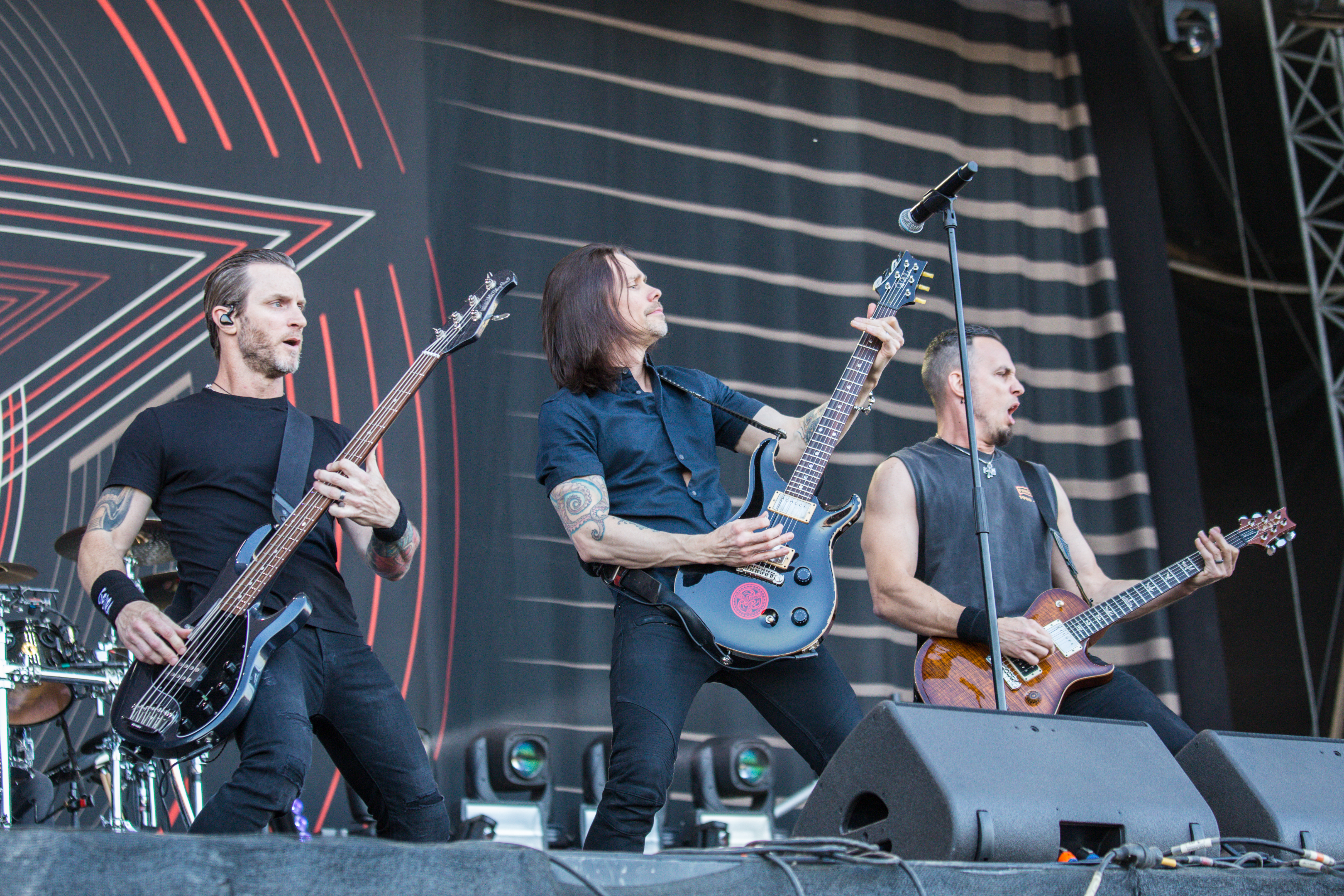 Nova Rock 2017 Brian Marshall, Myles Kennedy and Mark Tremonti from Alter Bridge at the Nova Rock 2017